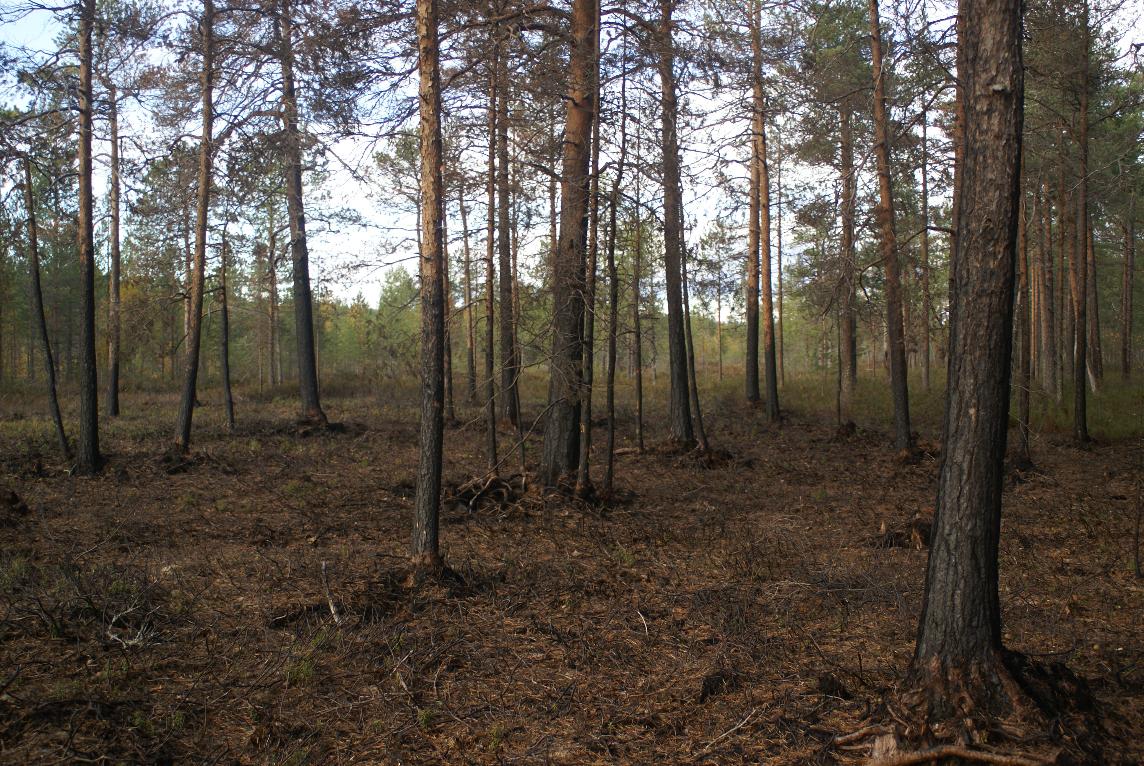 Forest three months after a forest fire outside of Umeå in Sweden.